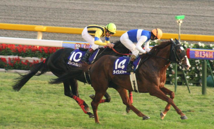 The 134th Tenno Sho(Tokyo Racecourse)